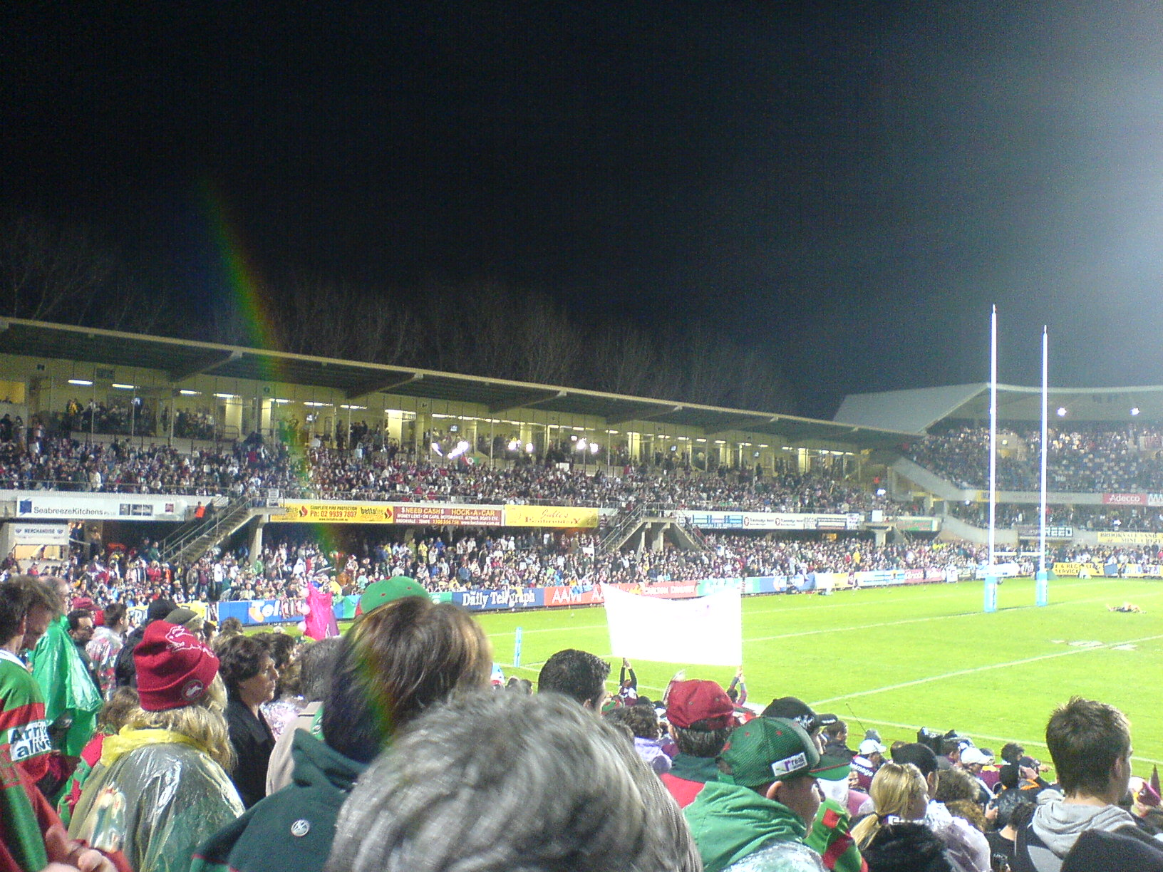 Photograph of Brookvale Oval